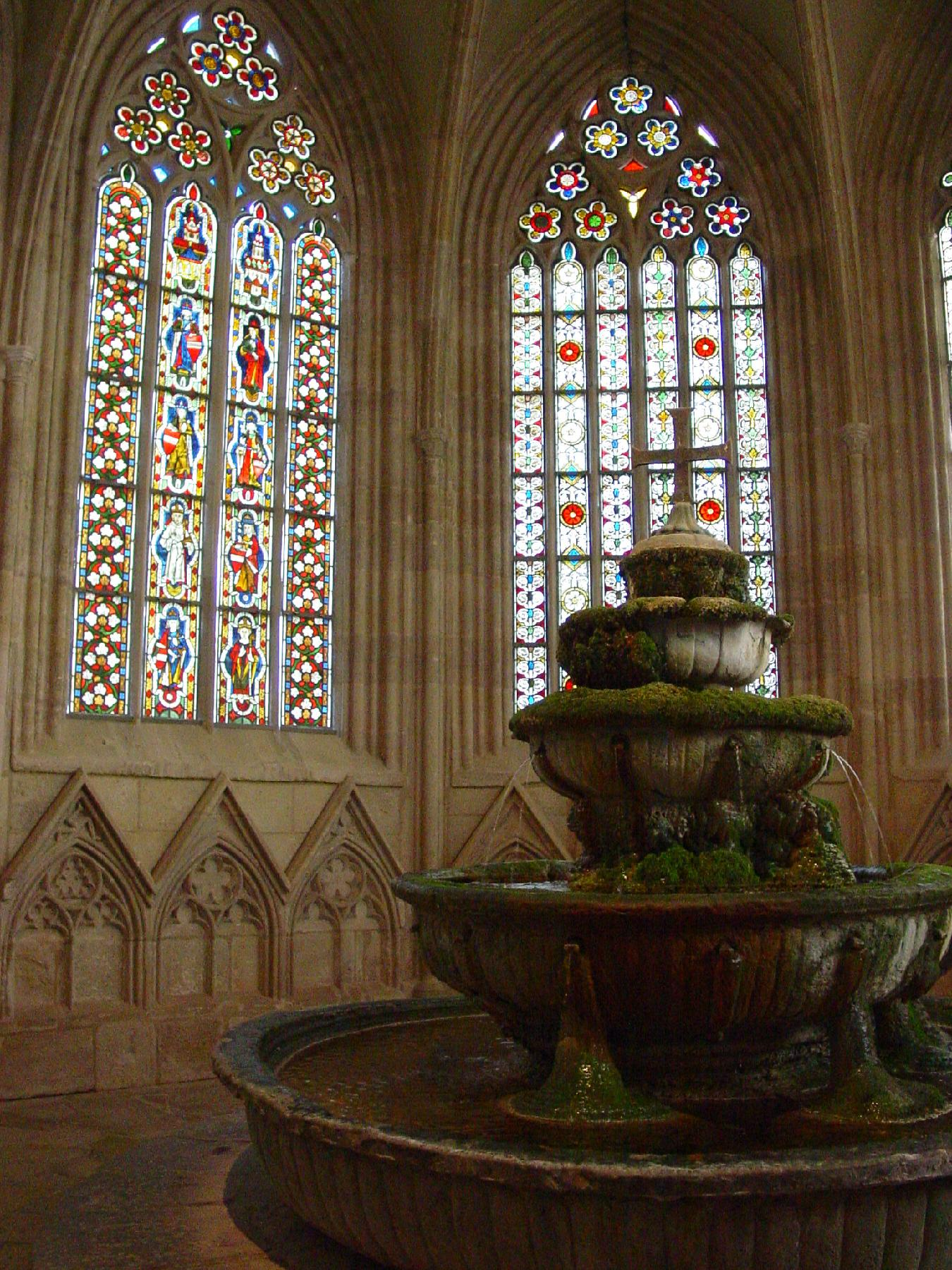 Fountain House at the Abbey Heiligenkreuz (1295)